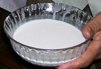 This is a typical Mangalorean Catholic Ros applied on the bride and the bridegroom